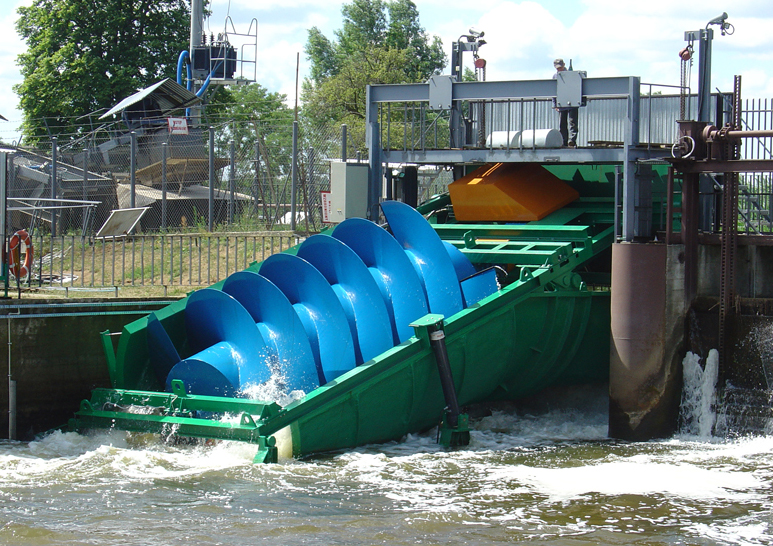 Archimedean screw power plant on Radomka river, Poland. Diameter: 3 m; flow: 6 m³/s; head: 1.8 m; maximum power: 80 kW.